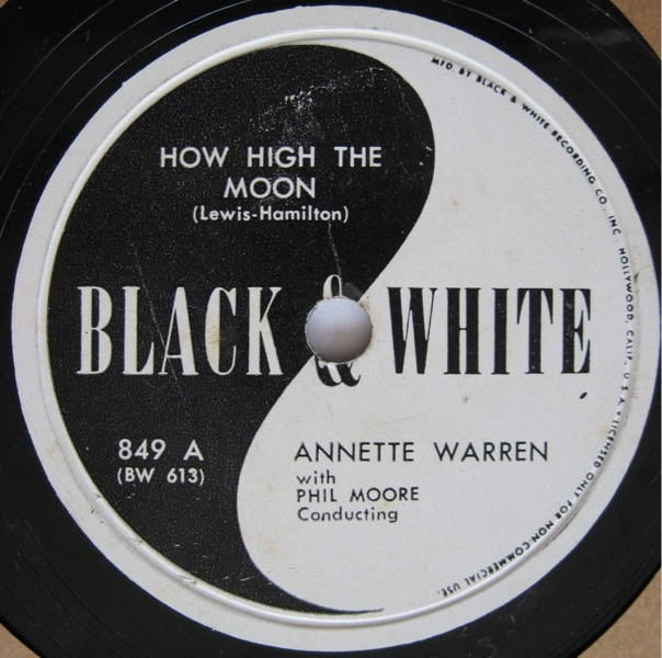 Phil Moore Orchstra & Annette Warren: How High the Moon (Black & White Records)